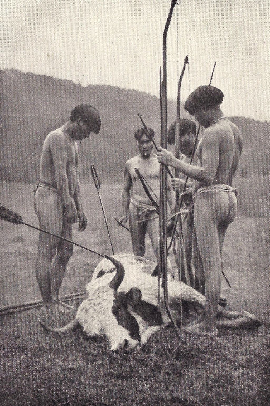 Botokuden - Hunter